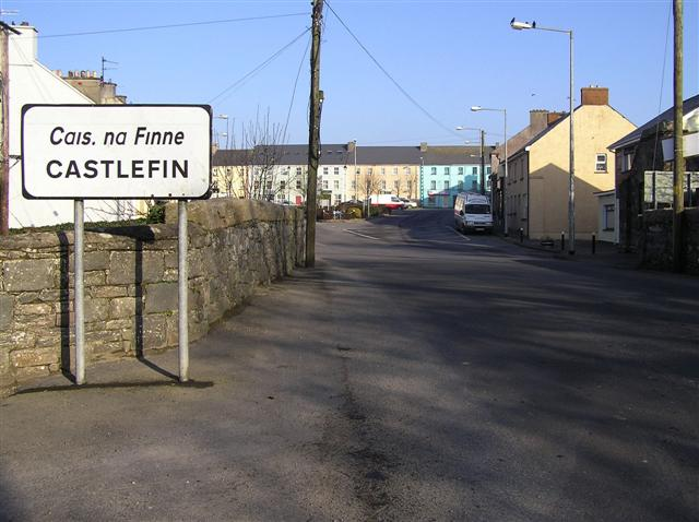 Approaching Castlefin from the south The Diamond is visible in the distance